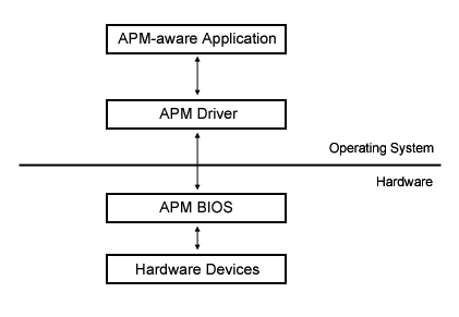 Image showing the hierarchy in Advanced Power Management